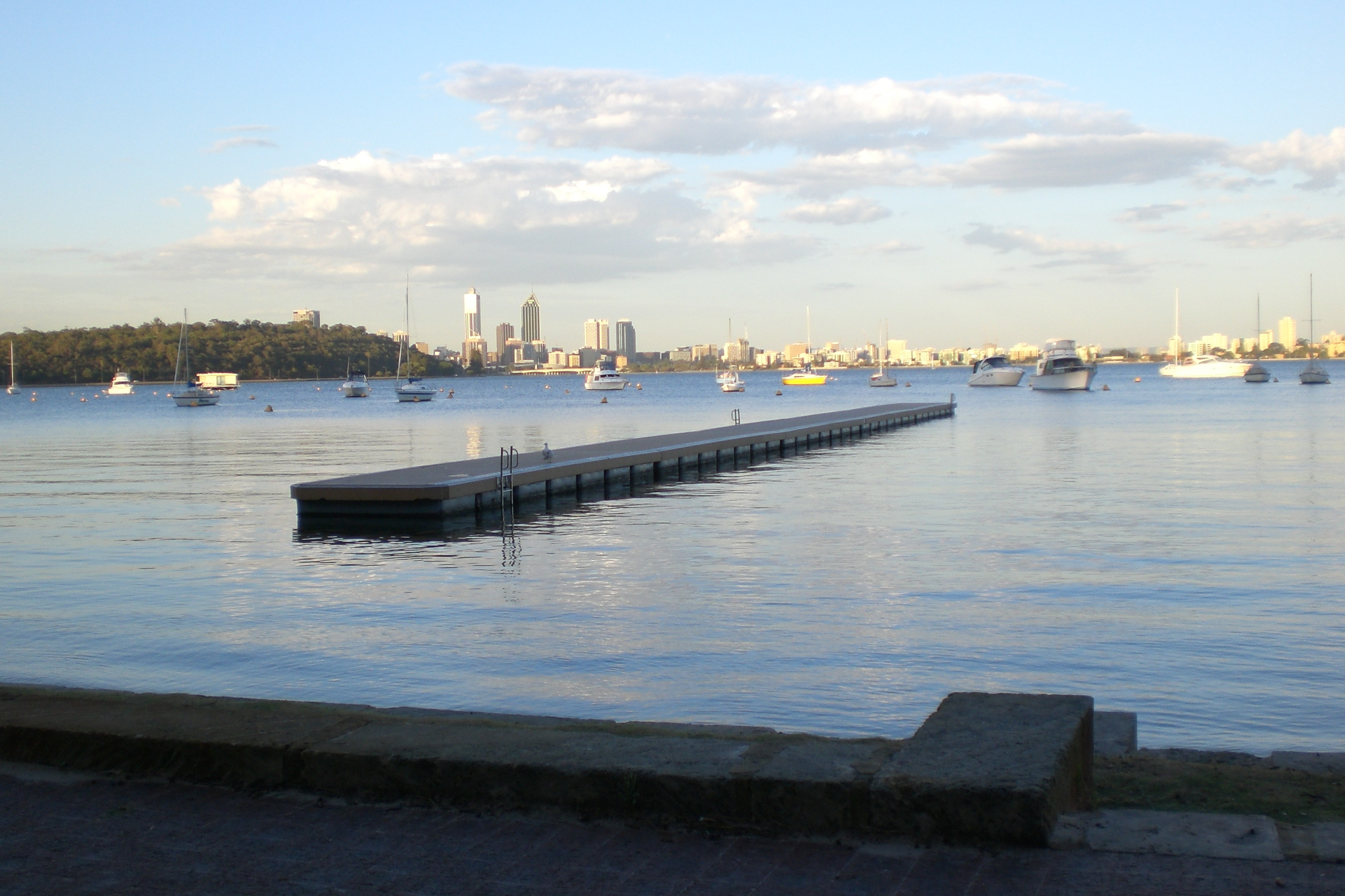 Image from a compact digital camera of Matilda Bay, which is located on the Swan River, Western Australia. The view is the easterly aspect of the bay, taken at sunset , and shows the following features: Mount Eliza in Kings Park; Perth's skyscrapers, skyline, and its foreshore; the Narrows bridge, and South Perth. The foreground shows one of two swimming platforms. The position of the photographer was at a seat constructed as a memorial to a young man killed in a boating accident.